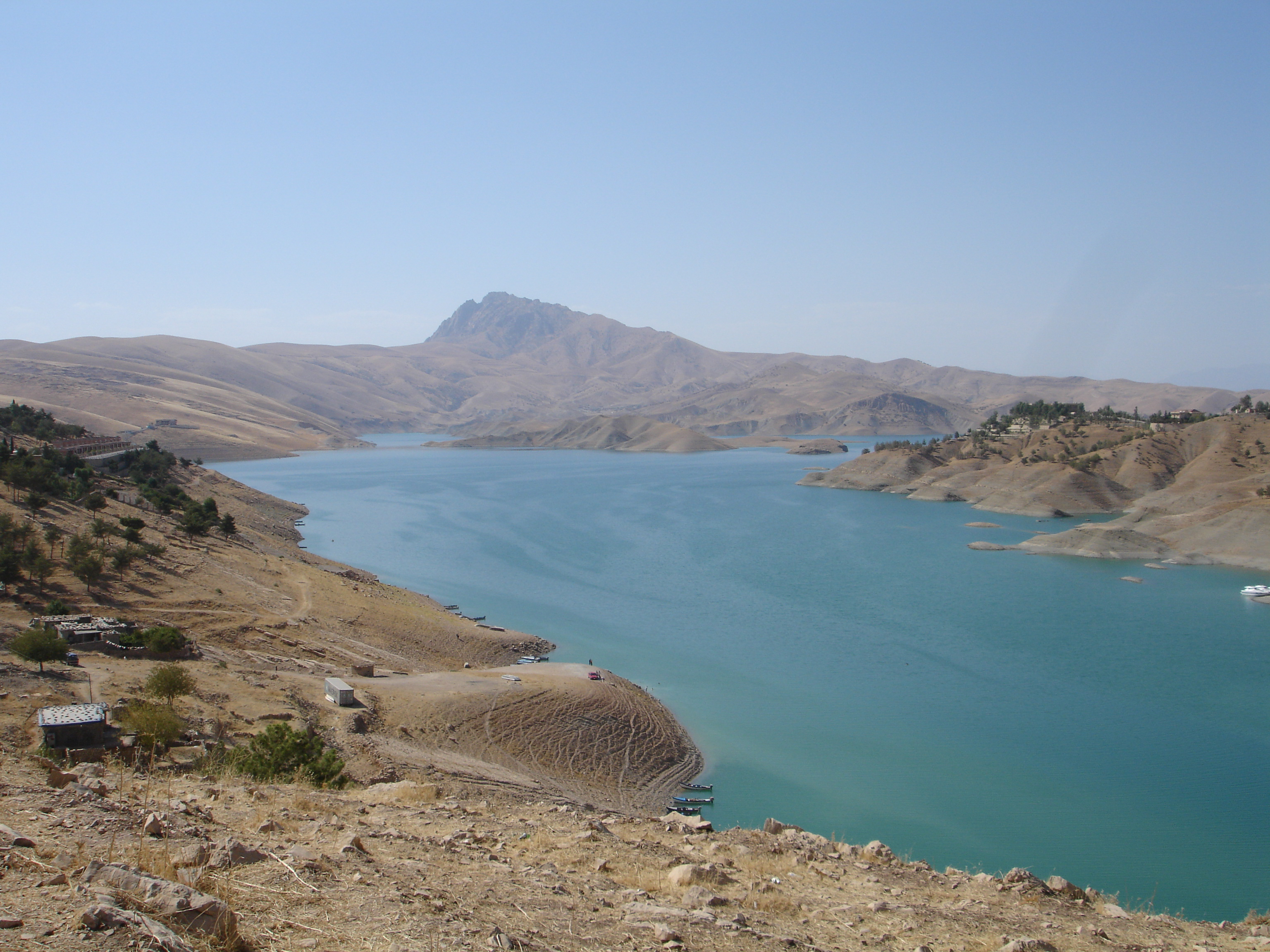 The lake of Dukan in Sulaymaniyah Governate This Picture was taken in Kurdistan.